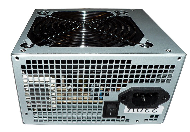 ATX power supply